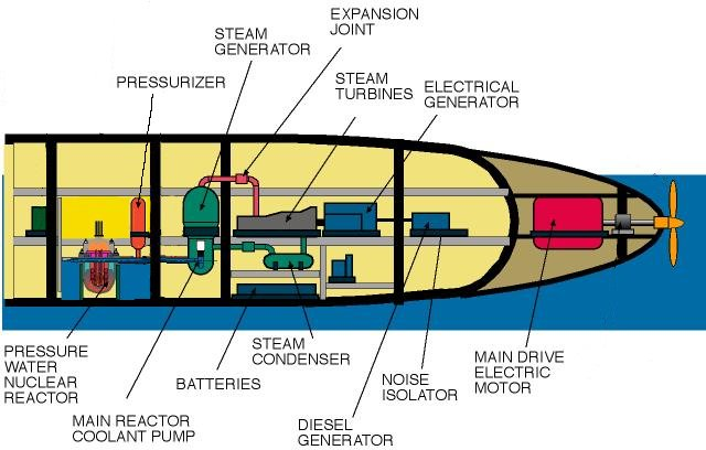 modified version of Image:SUB REACTOR SYSTEM.jpg by User:Webber. Description: Nuclear Submarine Reactor System (turbo-electric drive)